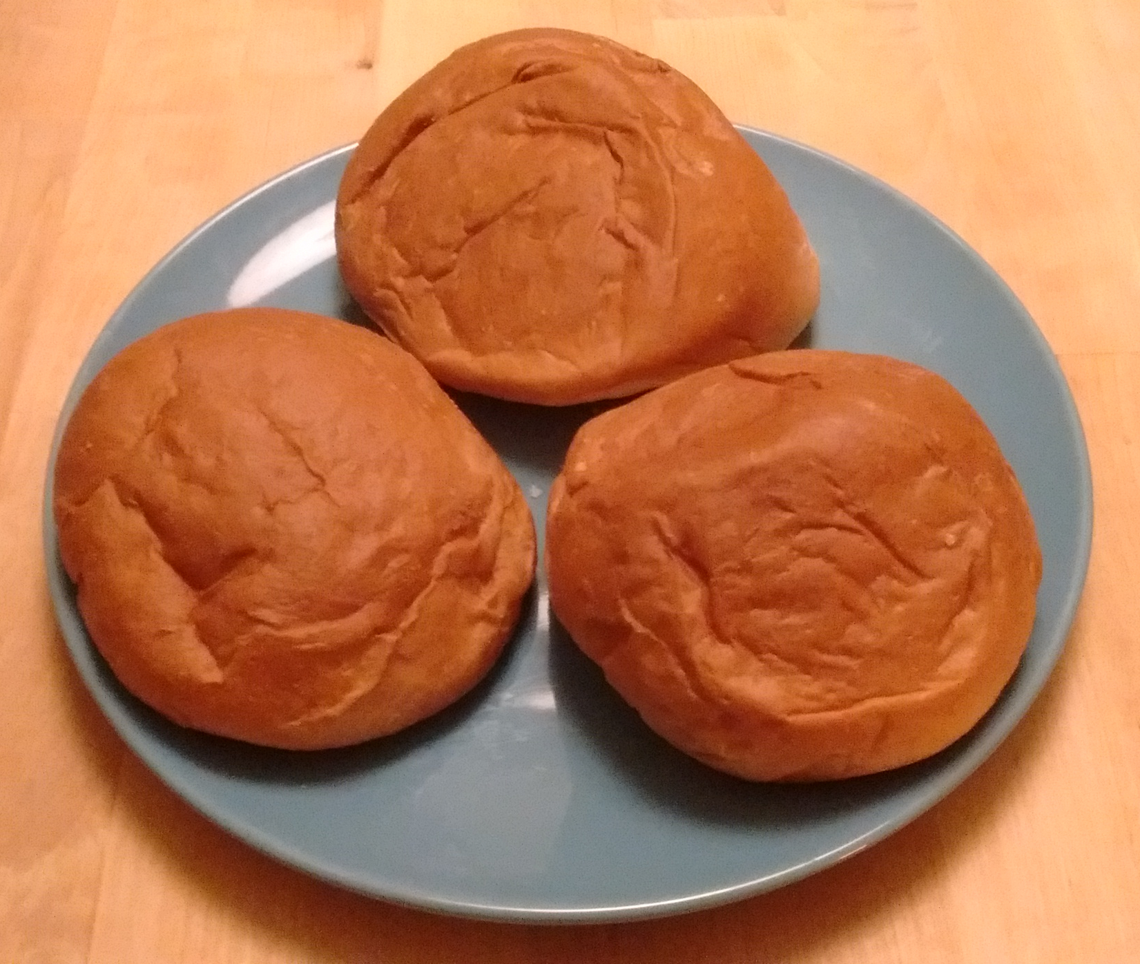 Rolls of Portuguese sweet bread from a bakery in Fall River, Massachusetts, United States